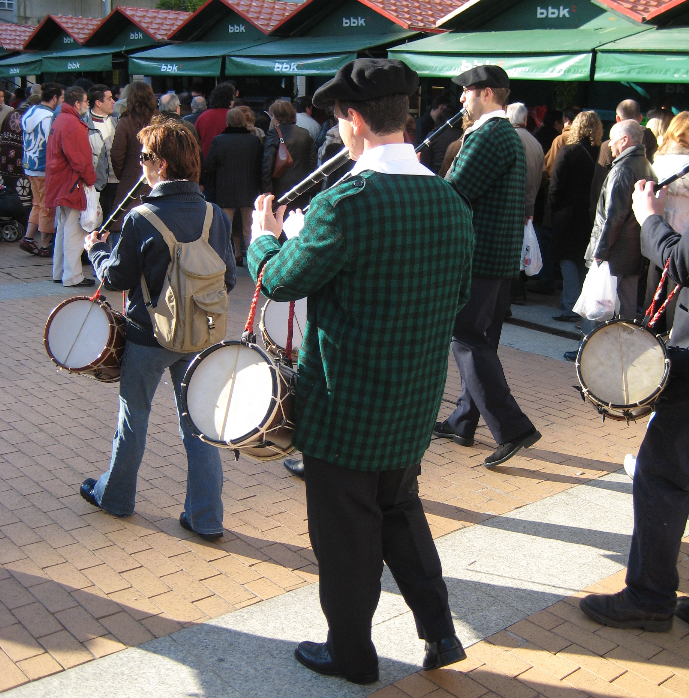 Leioako txistulariak txistu band, playing at Leioa Lejona